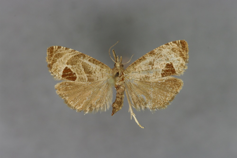 Notocelia uddmanniana